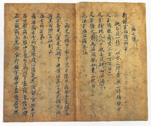 Ishinpō located at Ninnaji